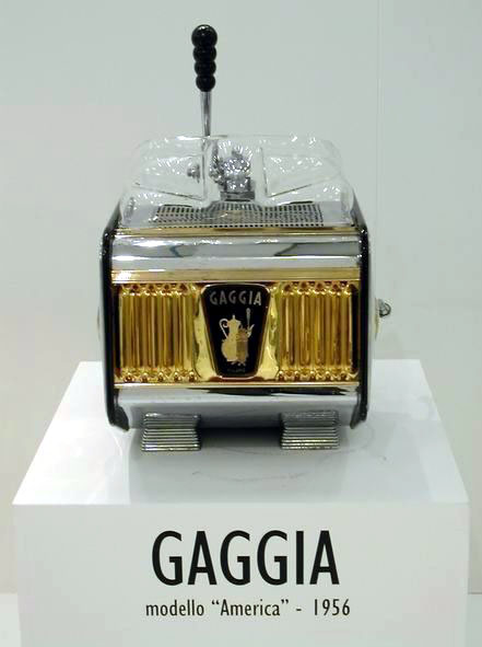 The Gaggia espresso machine : modello America - 1956, Italy.